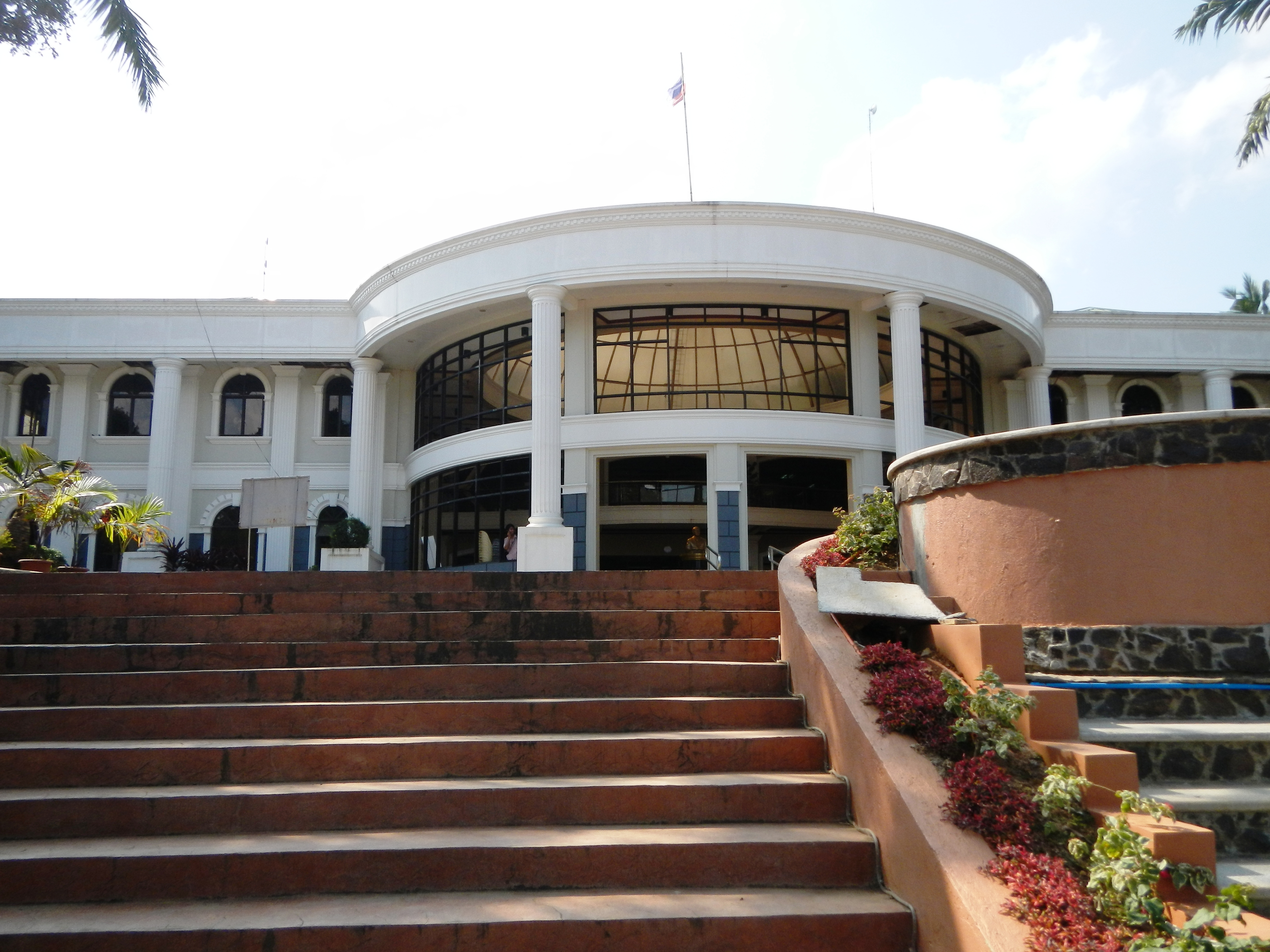 On top of a hill is the Quirino Provincial Capitol Complex Compound including the flag and seal, Governor's Office, Capitol building extendsion, Dome, breathaking view of nearby Town hall and landscapes its famous Quirino Sports Venue with tons of golden corn harvest being dried: Capitol, Barangay Gundaway, Poblacion Cabarroguis, Quirino (a 3rd class municipality in Quirino province, its CapitalWebsite [1] Quirino Capitol Gymnasium Capitol Oval under Gov. Junie Cua).